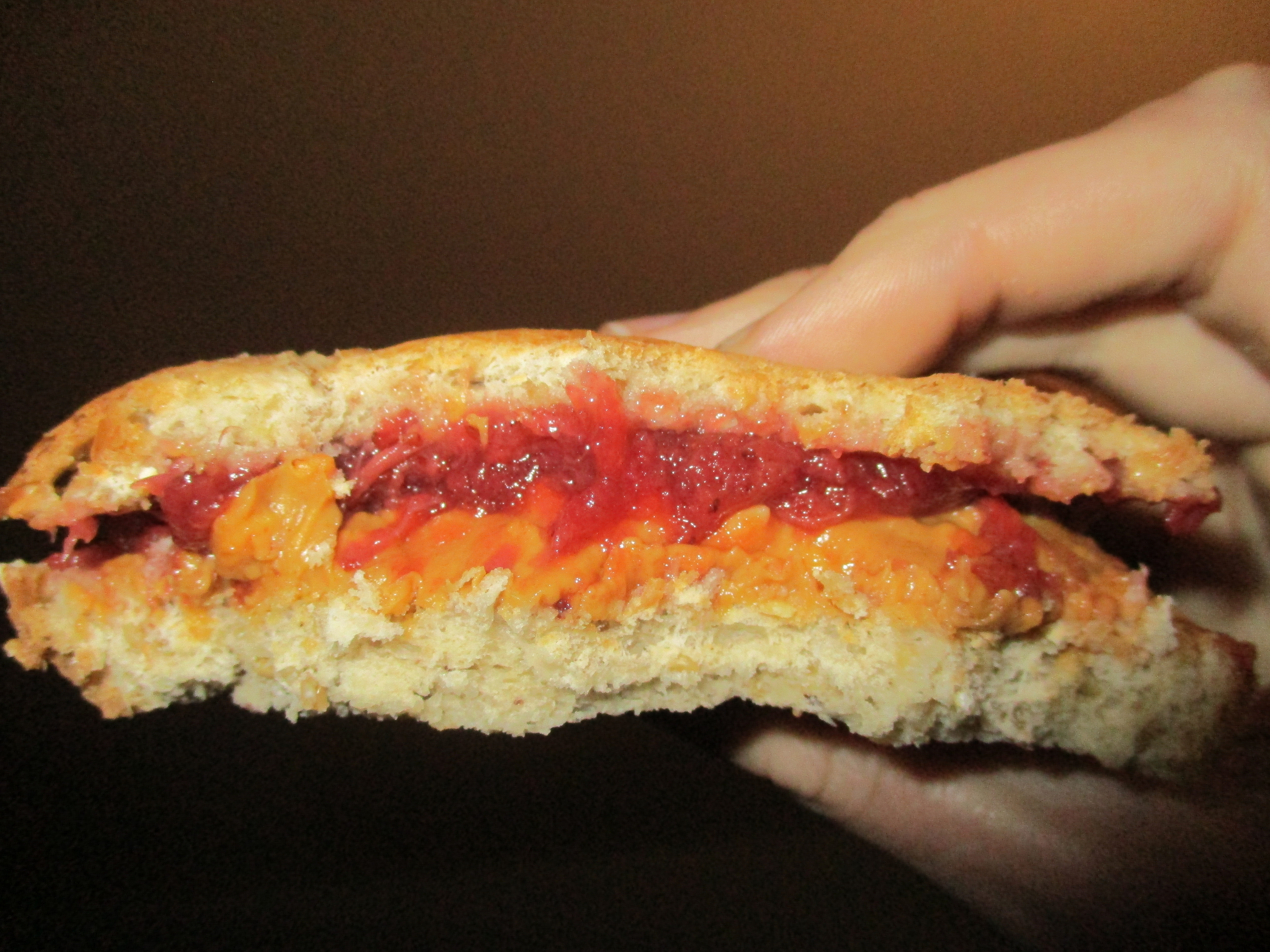 Half eaten. In hand.